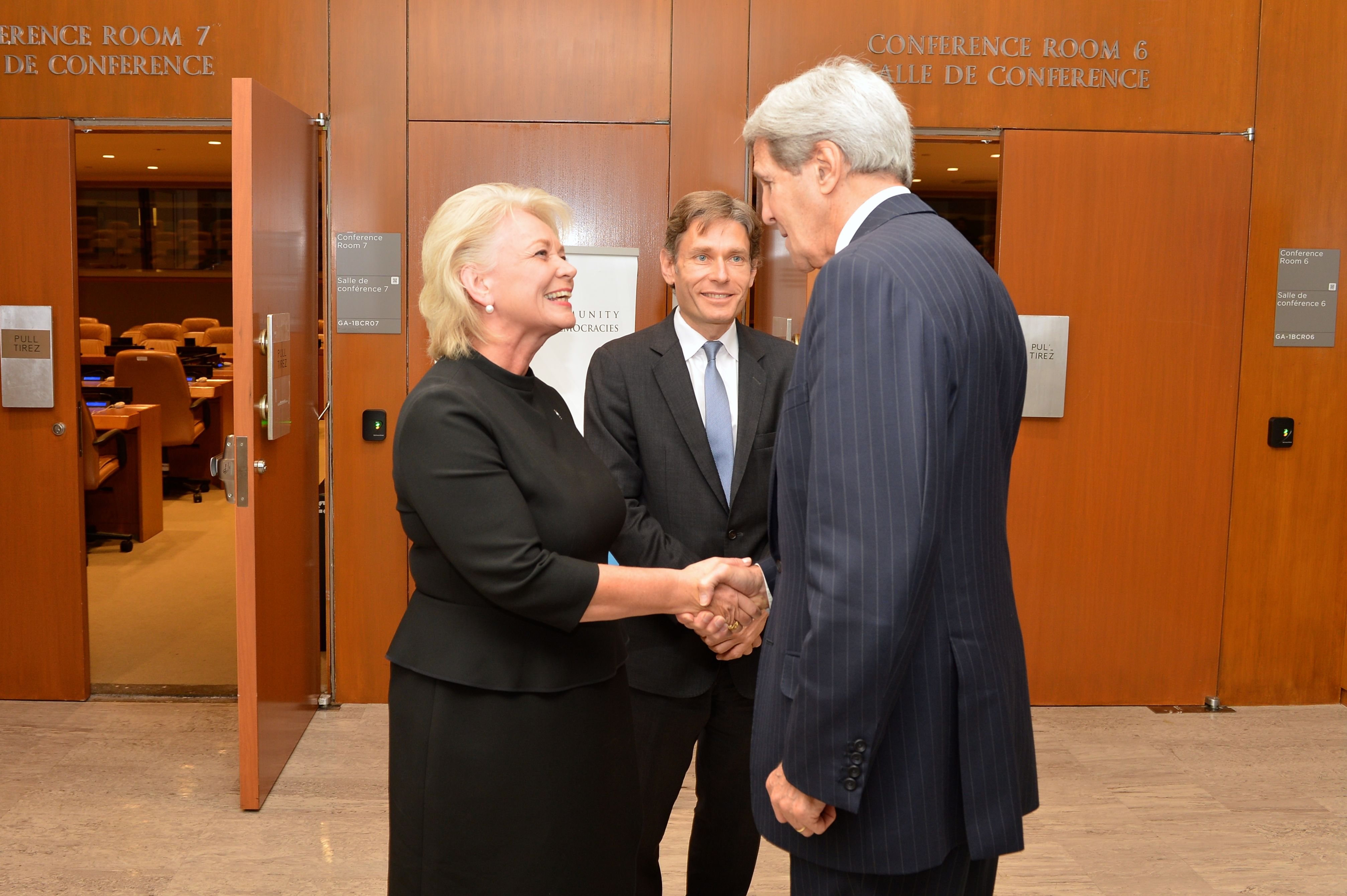 With Assistant Secretary, Bureau of Democracy, Human Rights, and Labor Tom Malinowski looking on, U.S. Secretary of State John Kerry shakes hands with Ambassador Maria Leissner, Secretary General of the Community of Democracies, before the Secretary participated in the Community of Democracies event at the United Nations in New York City on September 27, 2015. [State Department photo/ Public Domain]